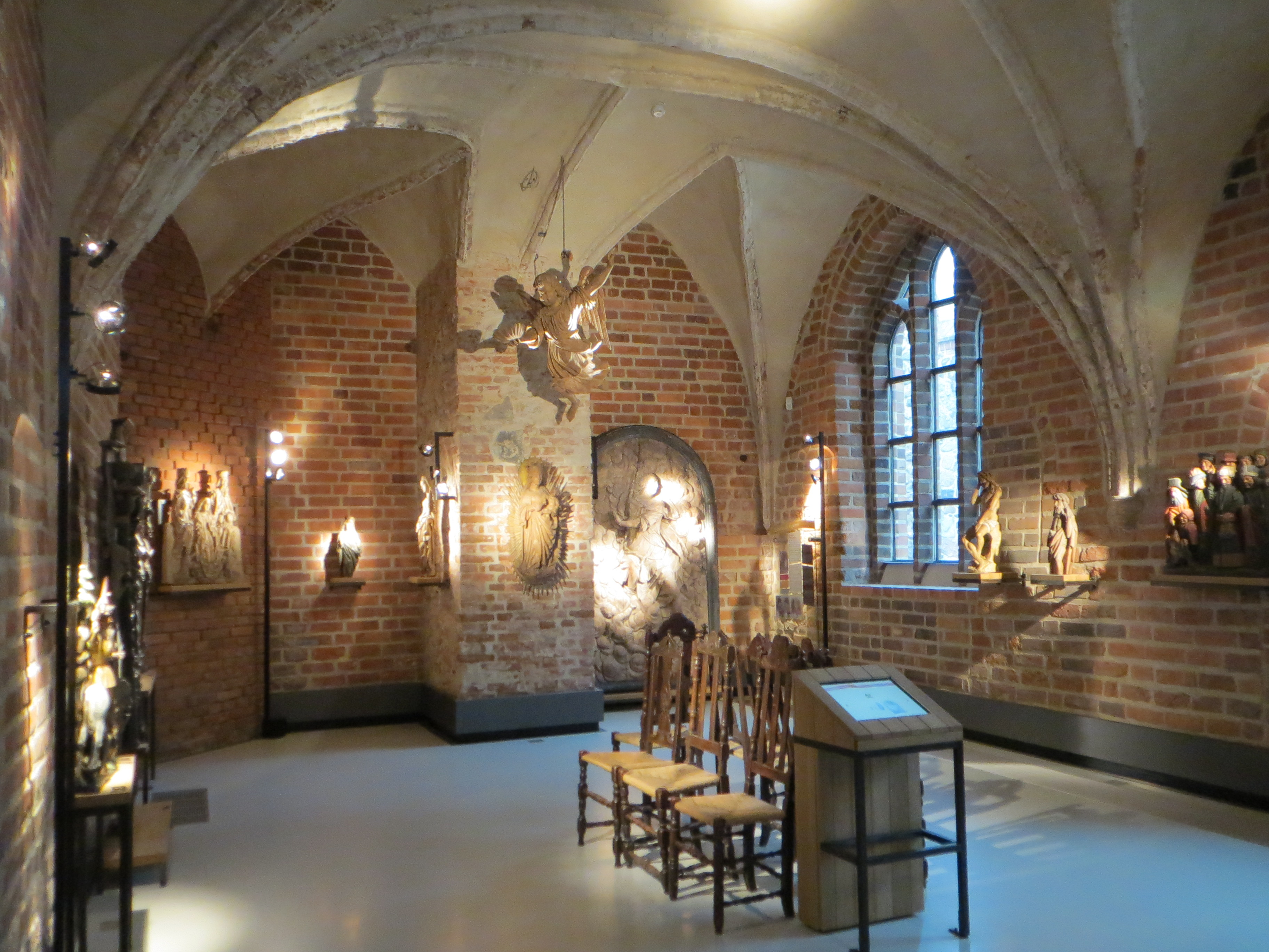 Franziskanerkloster Neubrandenburg